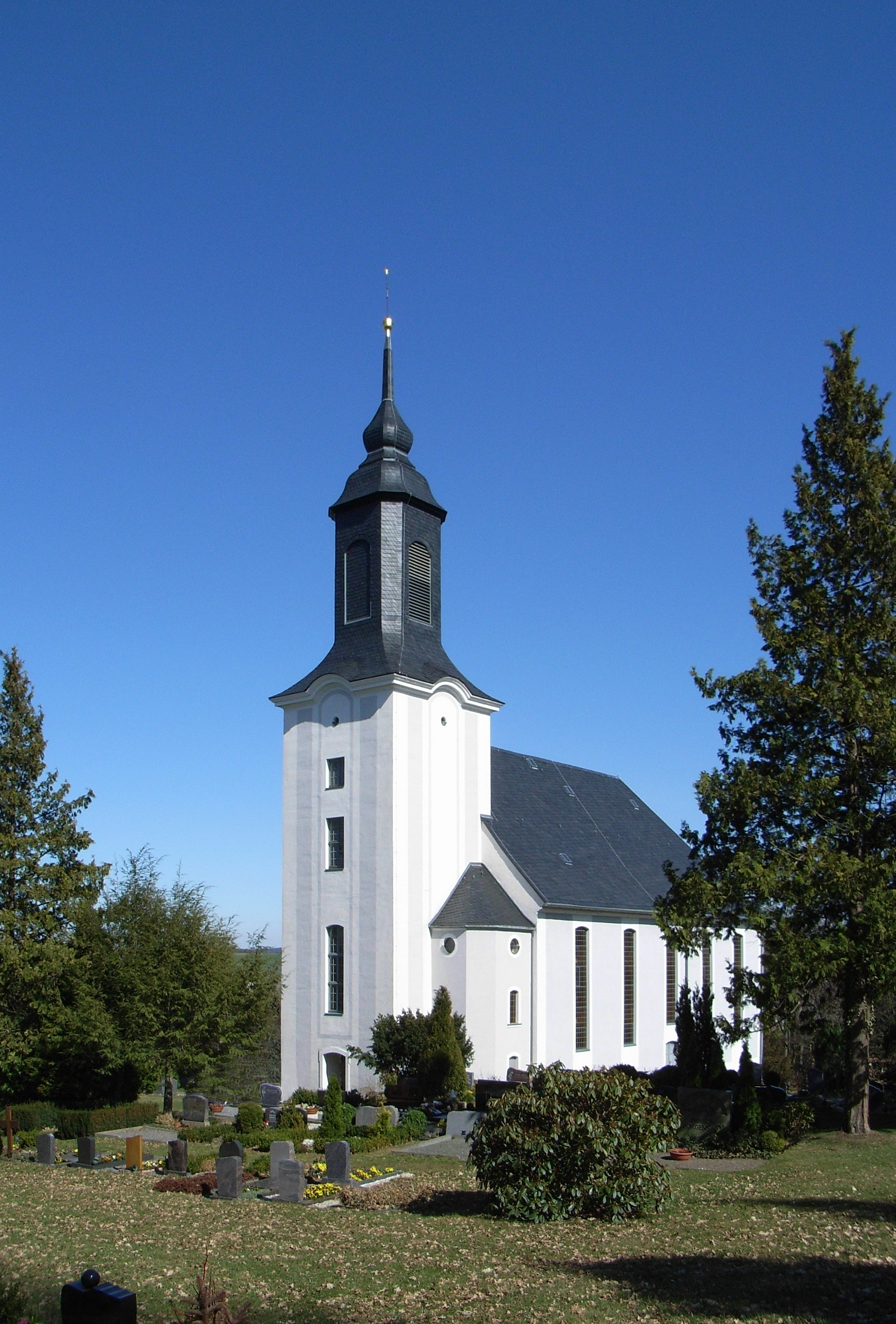 Church Chemnitz-Euba